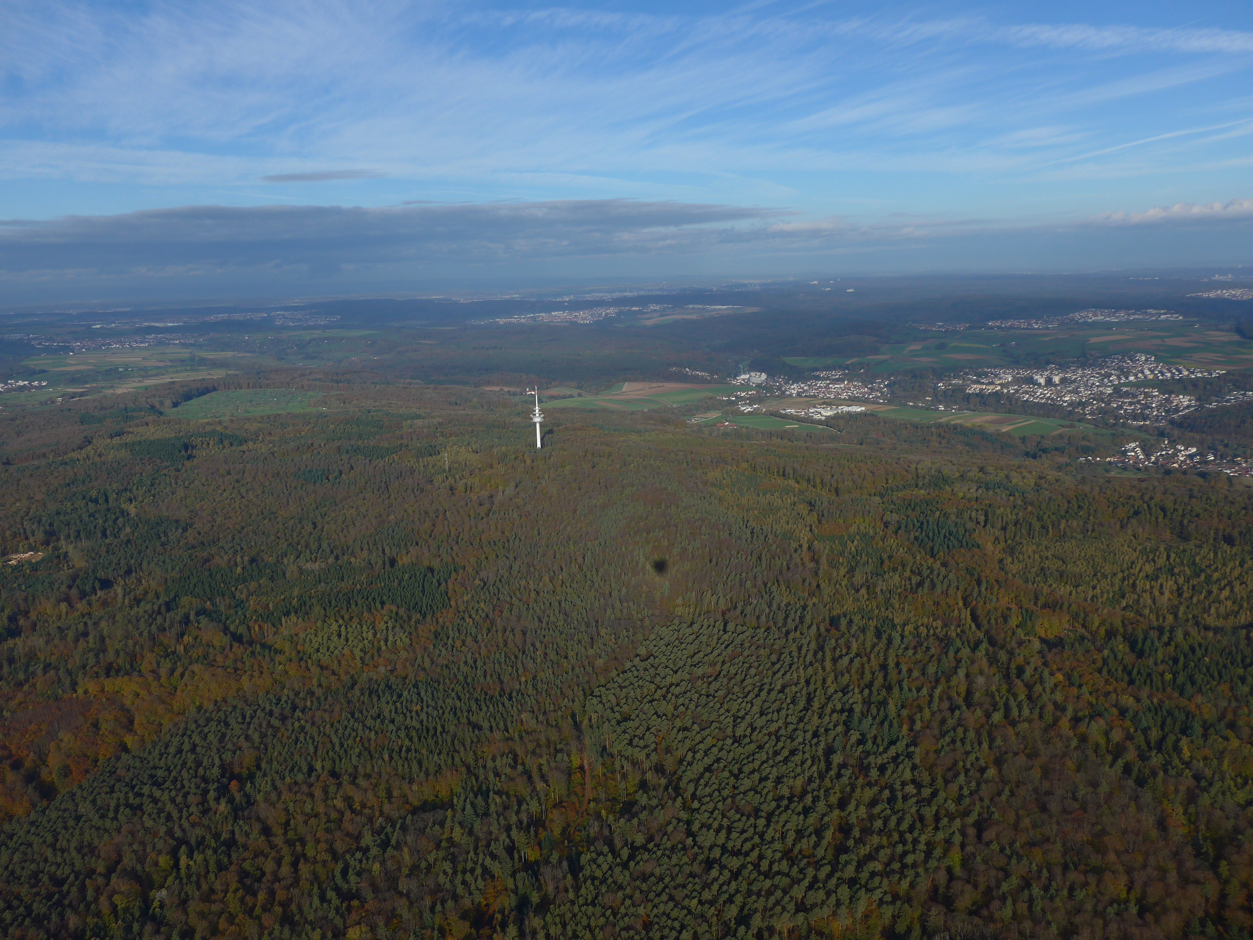 Beztenberg (Schönbuch), seen from hot air ballon